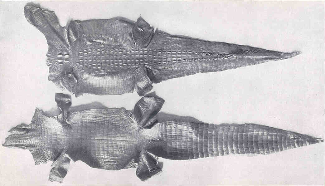 Alligator Skins Under-Surface and Horn-Back Subject: Alligators, Hides and skins Tag: Reptiles